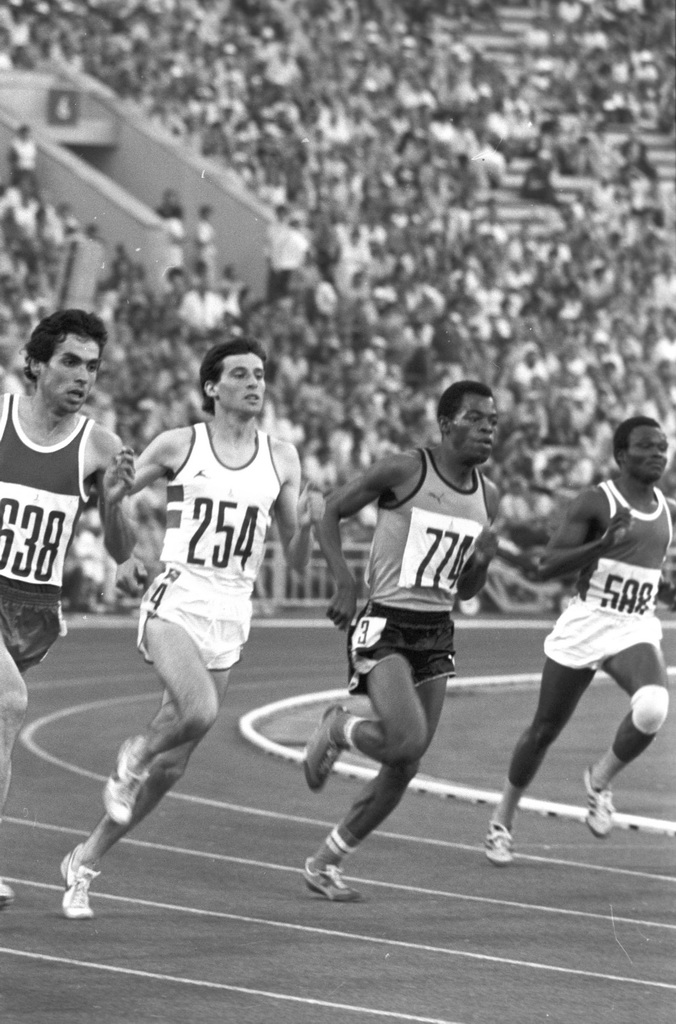 “Silver medalist of the 1980 Olympics in 800m running Sebastian Coe from Great Britain”. Silver medalist of the 1980 Olympics in Men's 800m running Sebastian Coe (Great Britain, #254). Central Lenin Stadium in Luzhniki. XXII Summer Olympic Games in Moscow.